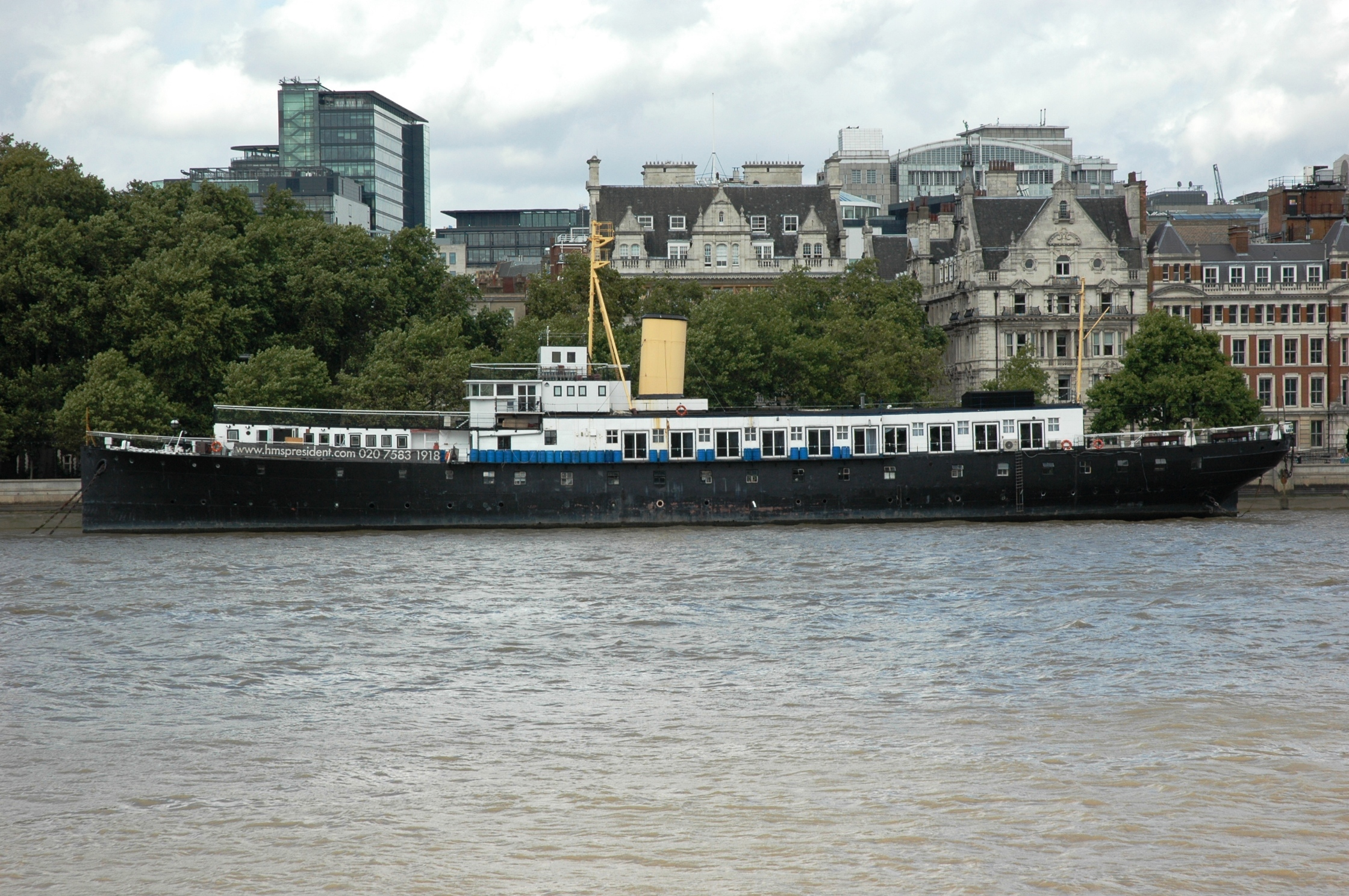 The H.M.S. President anchored on the river Thames in London.